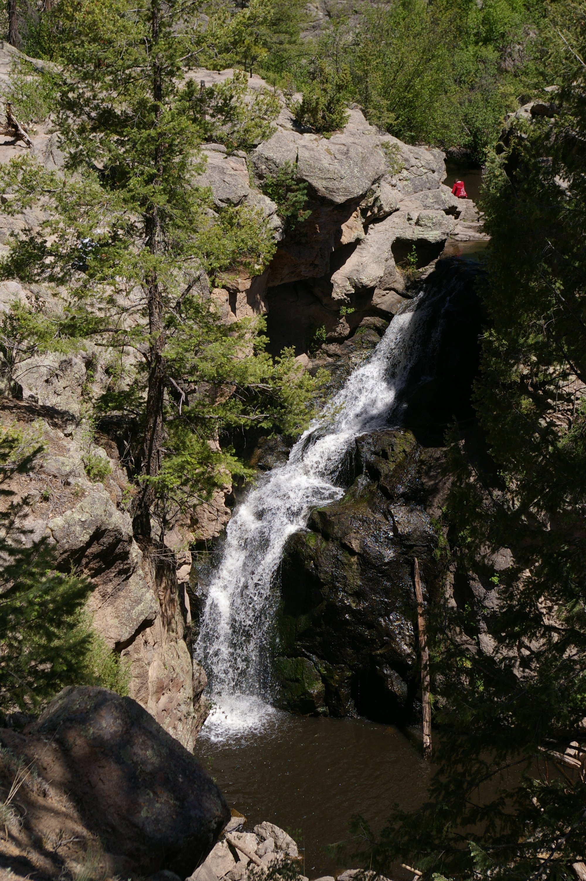 A view of Jemez Falls, New Mexico from the viewing area